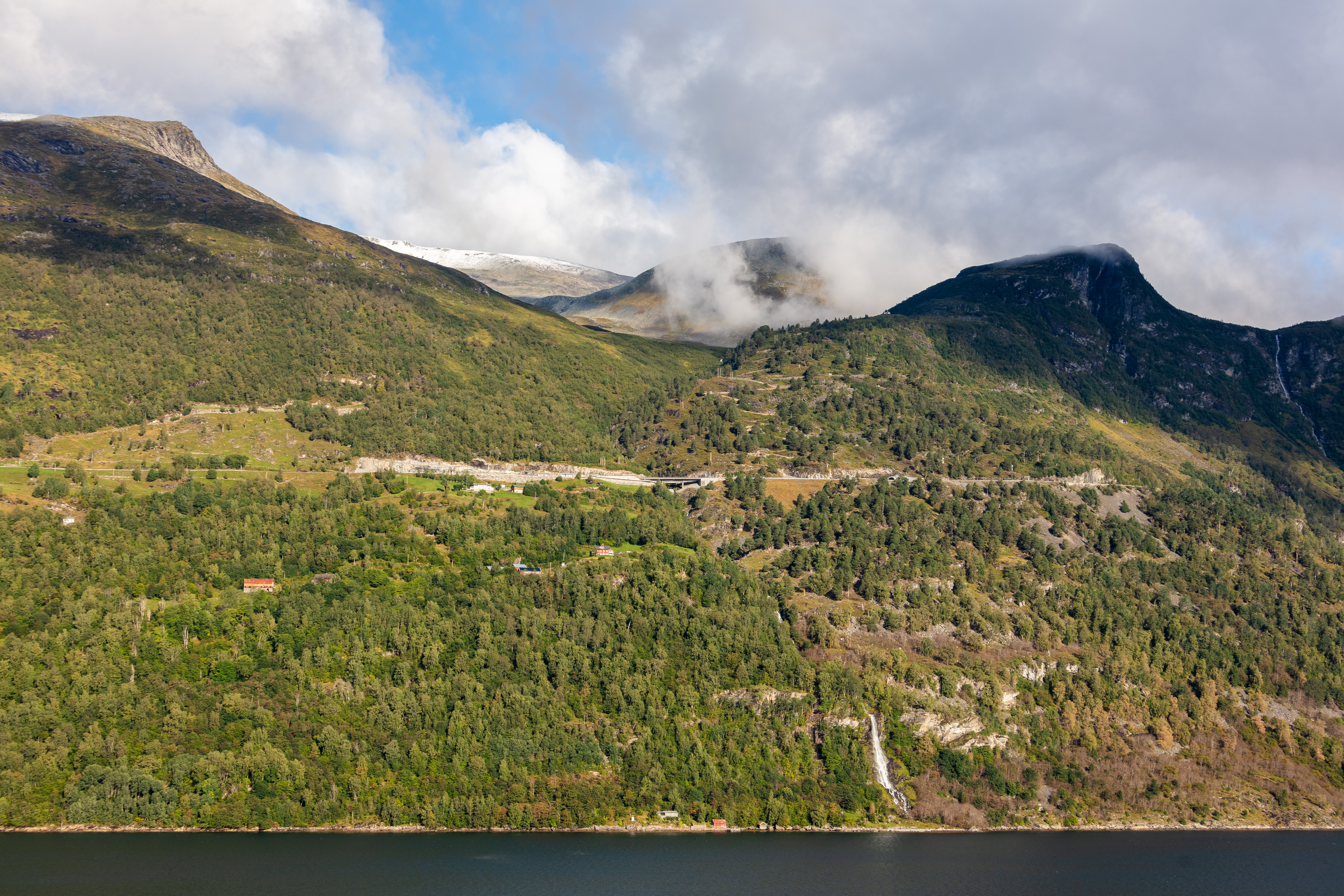 Road 63, Geiranger, Norway